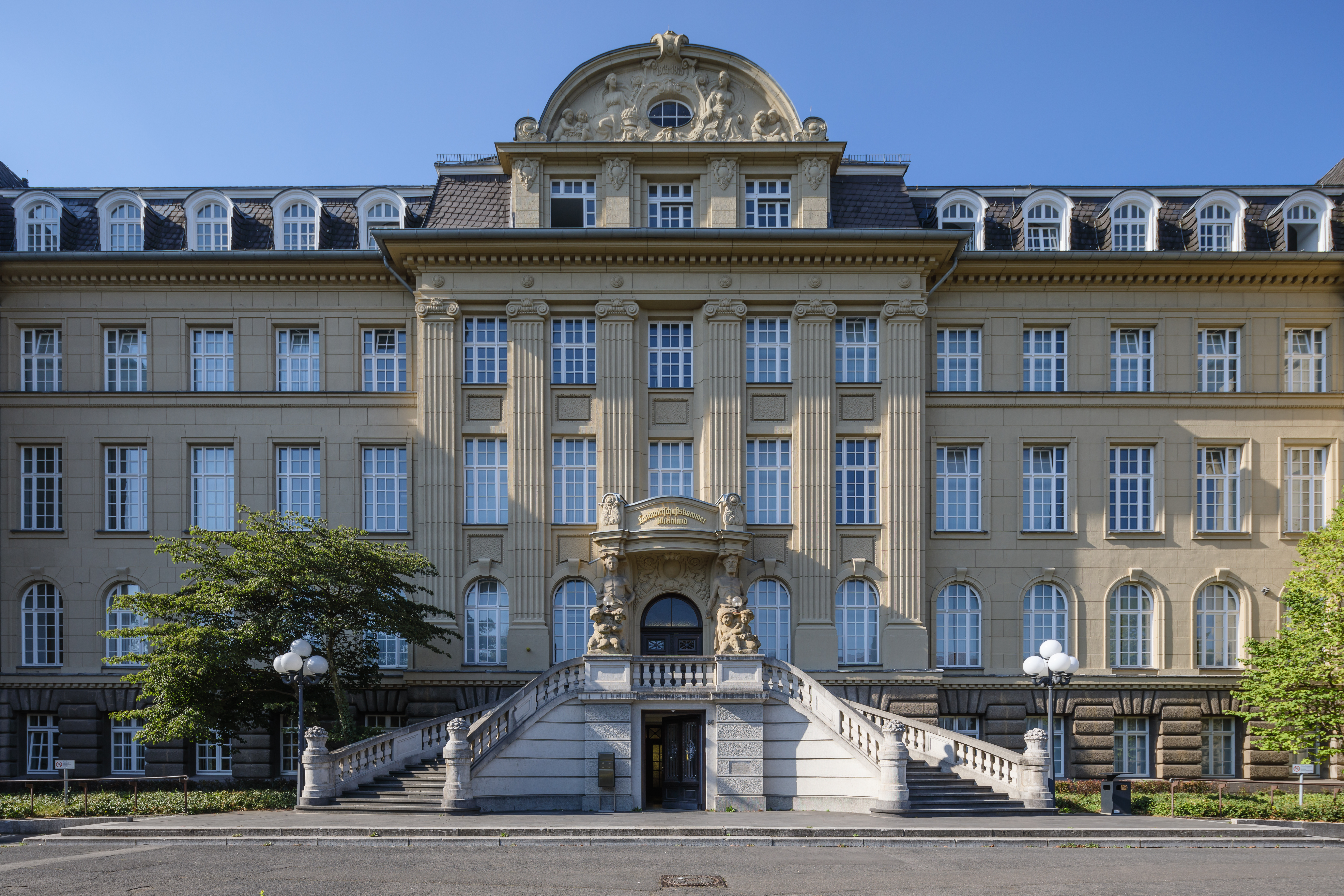 Bonn, Germany: Building "Landwirtschaftskammer Rheinland"